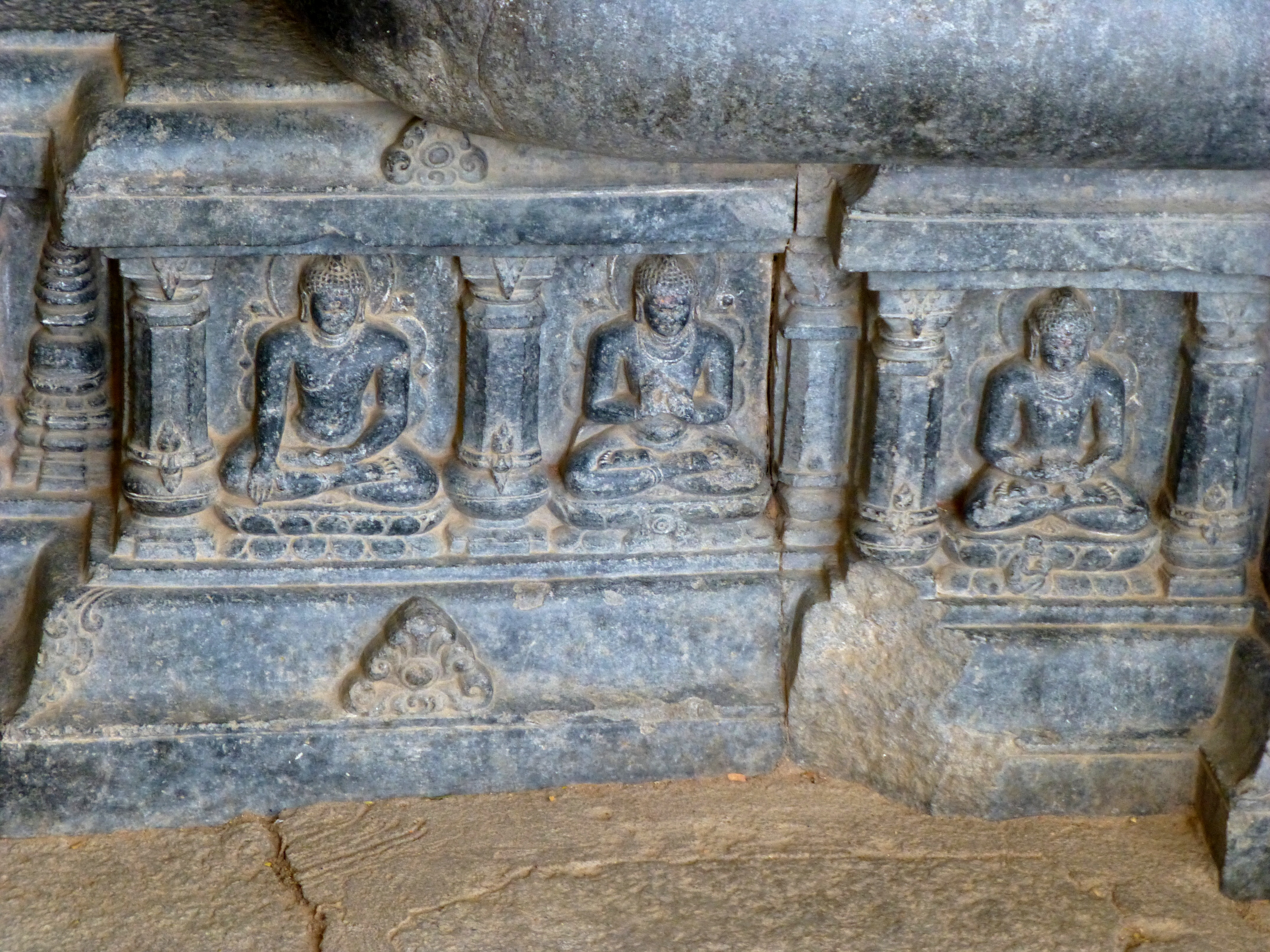 070 Buddha Statue Base at Barabar, Bihar Photograph from the Barabar Caves in Bihar taken by Anandajoti.